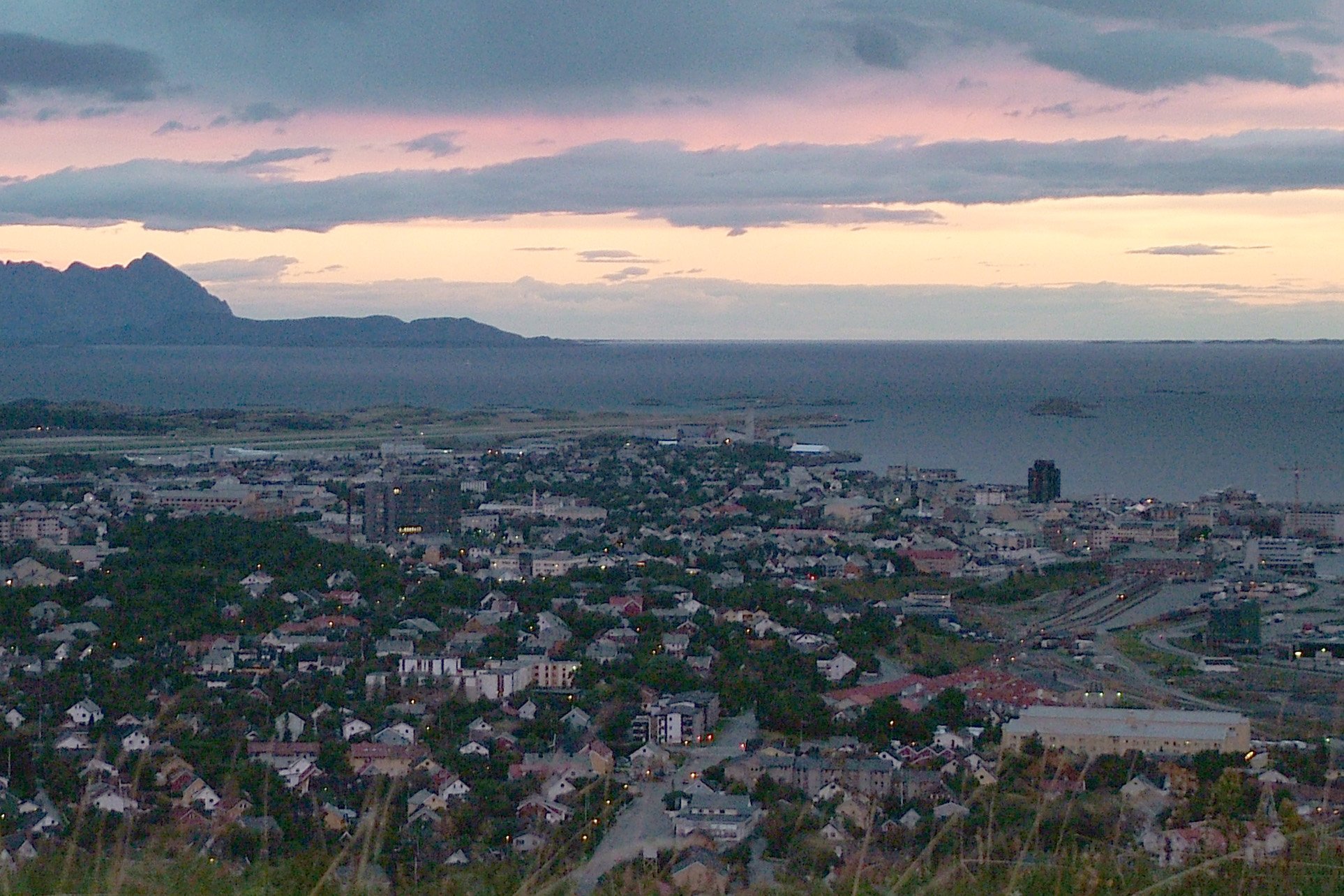 A sunset view over Bodø, Norway, in late summer. Created by Seth G. Cowdery on August 28th, 2004.